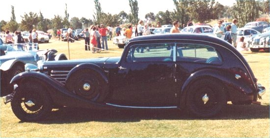 Photo of historic SS 1